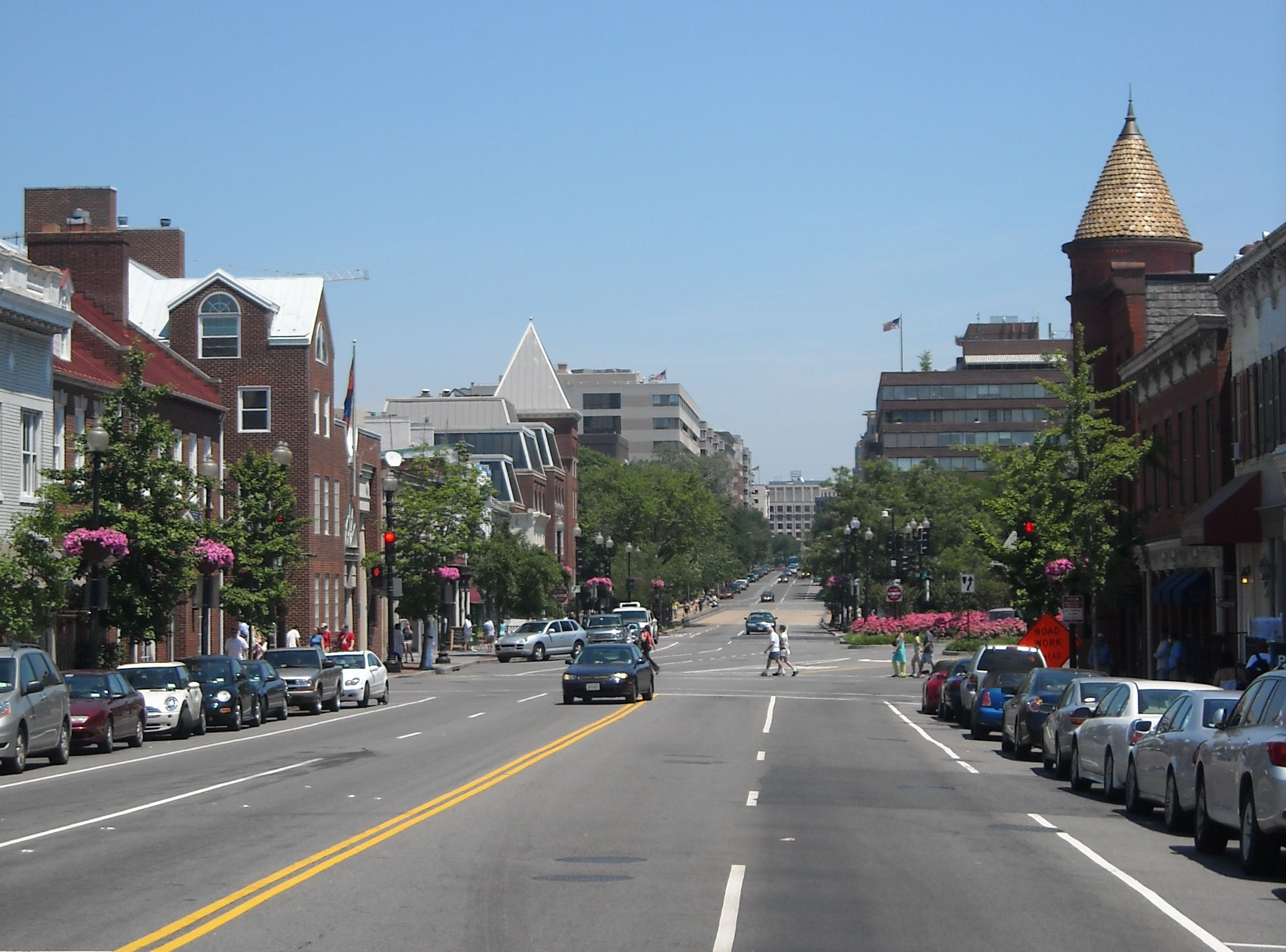 Looking east on M Street NW in Washington, D.C. The picture was taken in the Georgetown neighborhood and is facing towards the Foggy Bottom neighborhood.